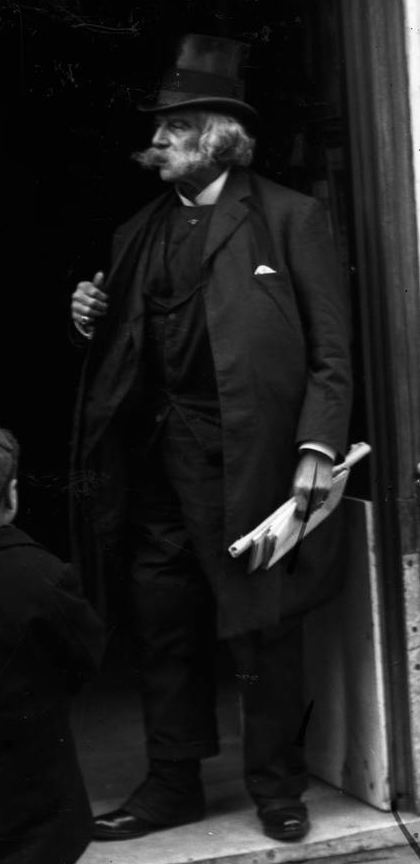 Emílio Ernesto de Franco, the Marquis of Franco e Almodôvar (1835-1914).